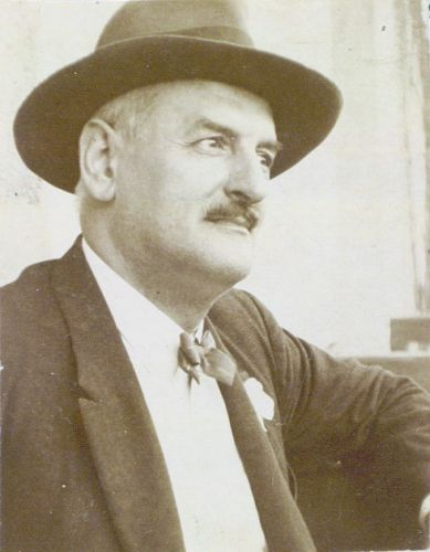 Emil Hochreiter (1871-1938)